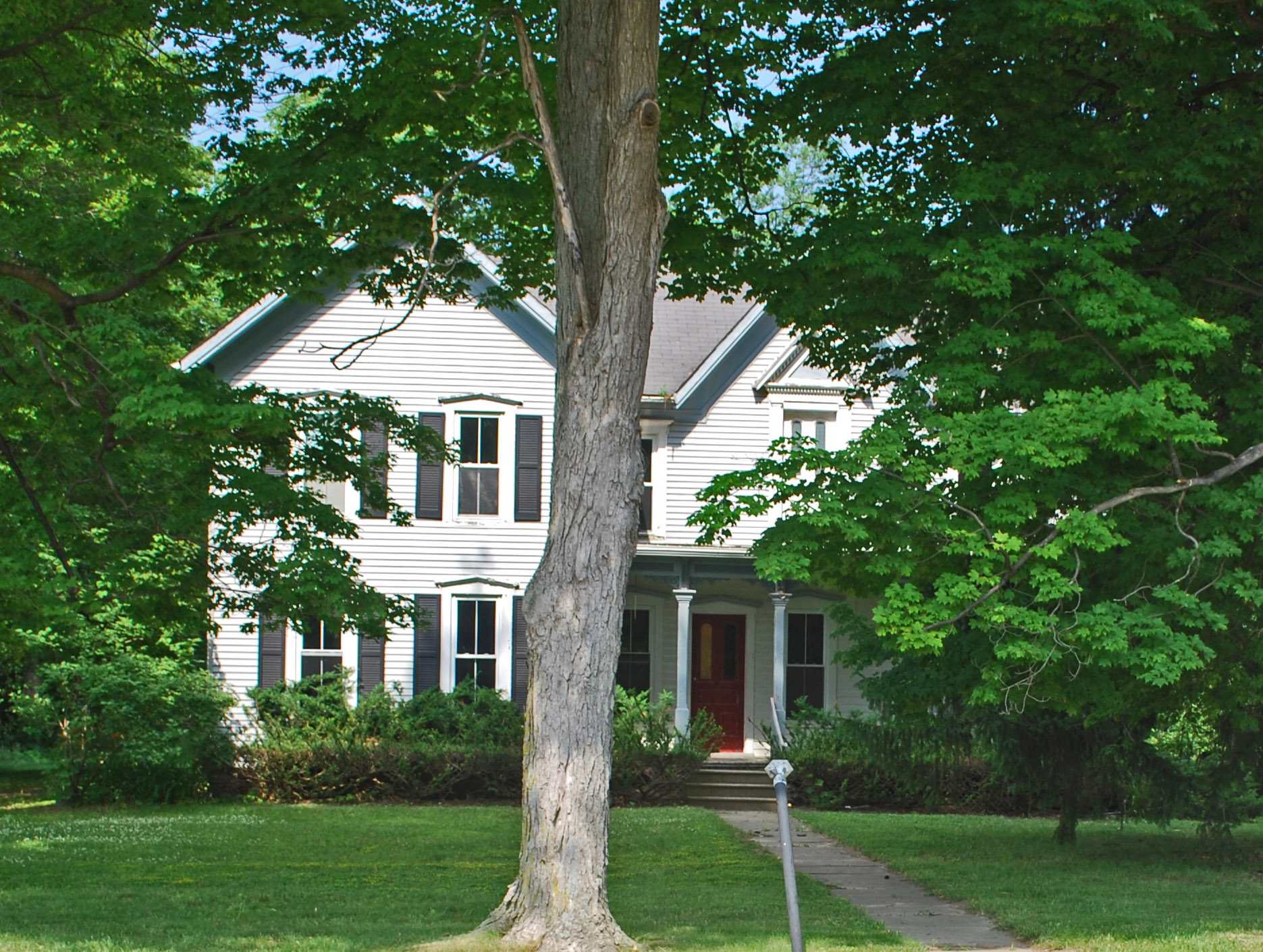 Louk Farm, Howell MI House